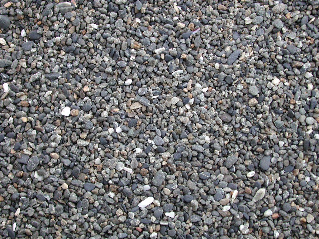 Small gray pebbles covering the ground.